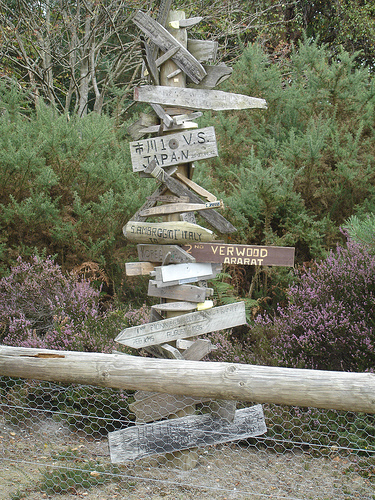 The Scout sign post on Brownsea Island, Poole Harbour, Dorset, England, UK. GFDL permission granted by Emily Hanson on 17 June 2007.